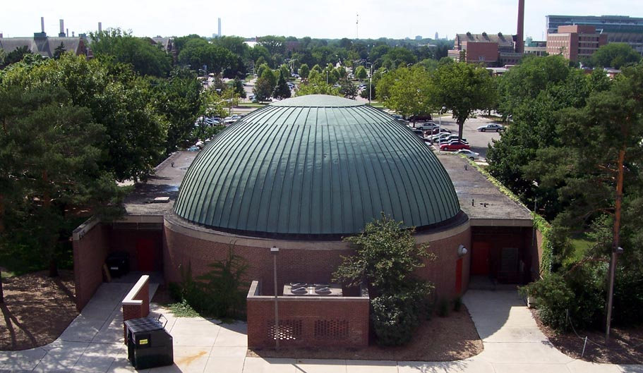 Abrams Planetarium is a planetarium in the center of Michigan State University's campus.